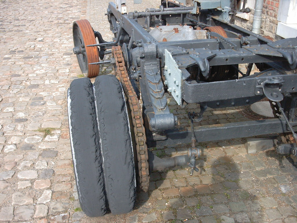 Stolberg (Rhld), Museum Zinkhütter Hof, ladder chassis of a 1910 build Mannesmann-MULAG truck